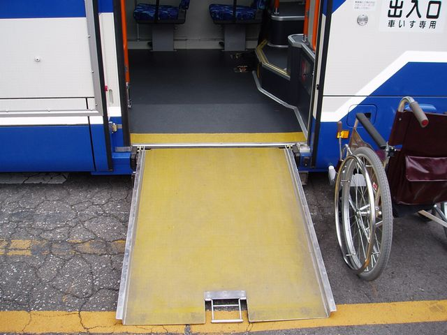 Slope for Wheelchair on Low floor bus Isuzu PJ-LV234L1